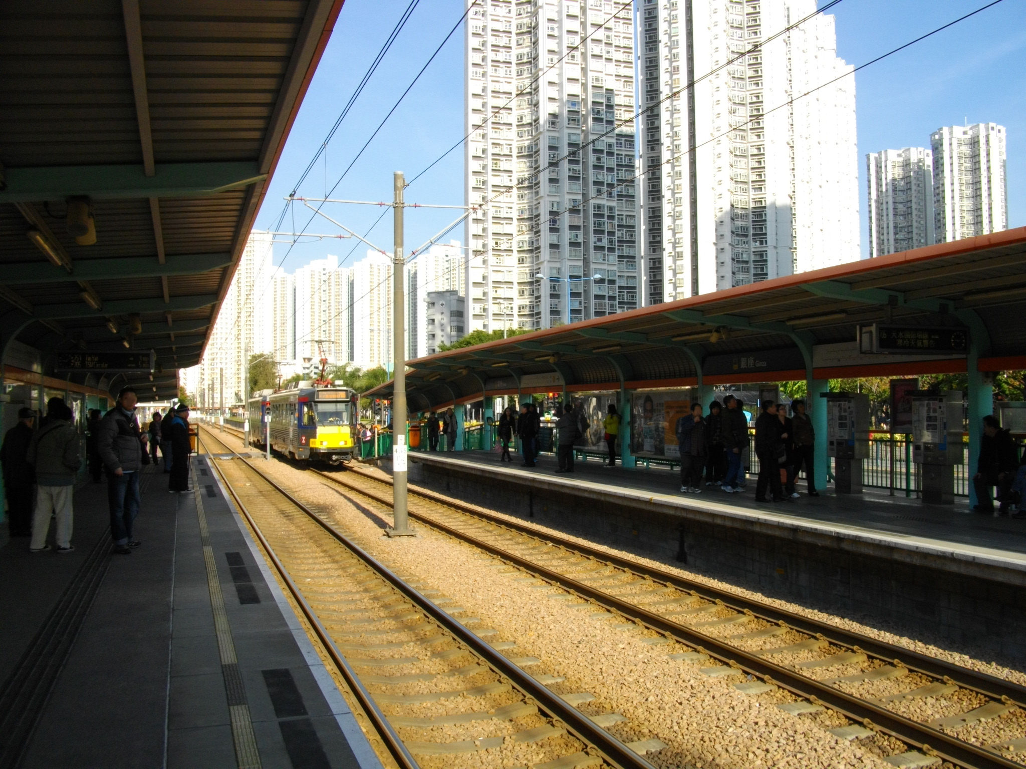 Ginza Stop (Hong Kong)